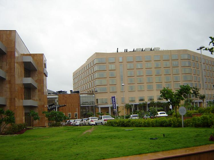 Emaar